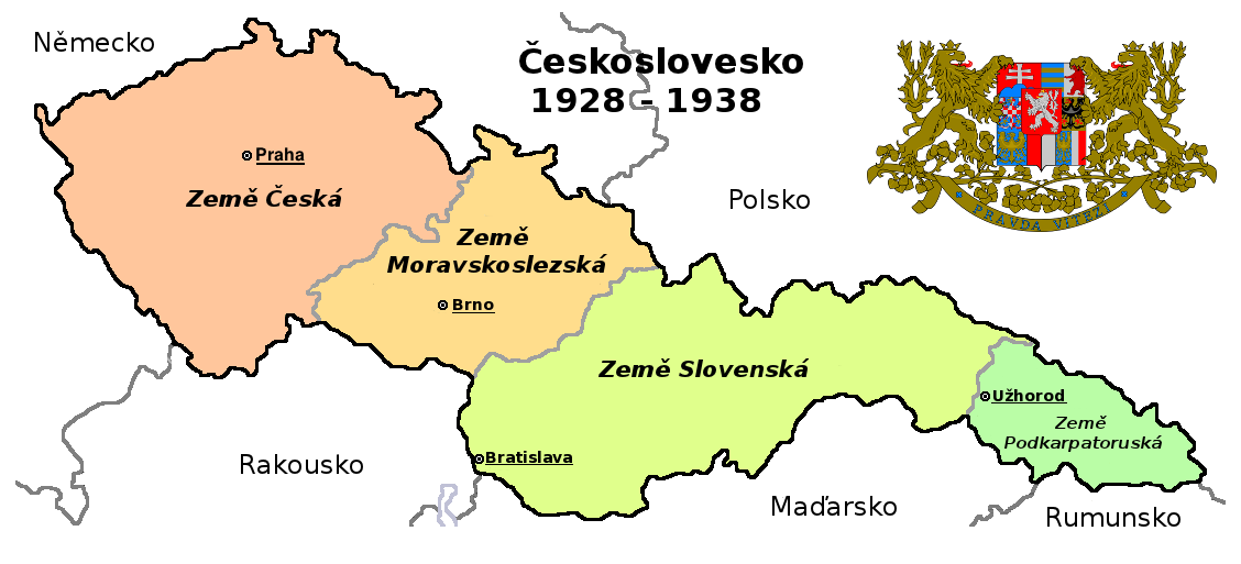 Maps of Czechoslovakia in 1928-1938 with marked borders of all four Czechoslovak lands and their regional capital cities